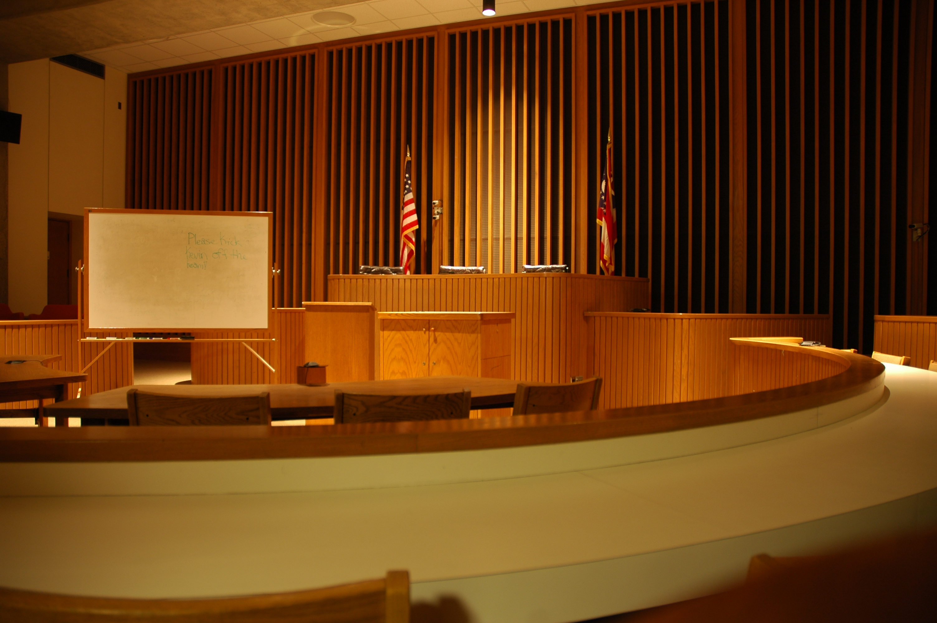 college of law trial courtroom